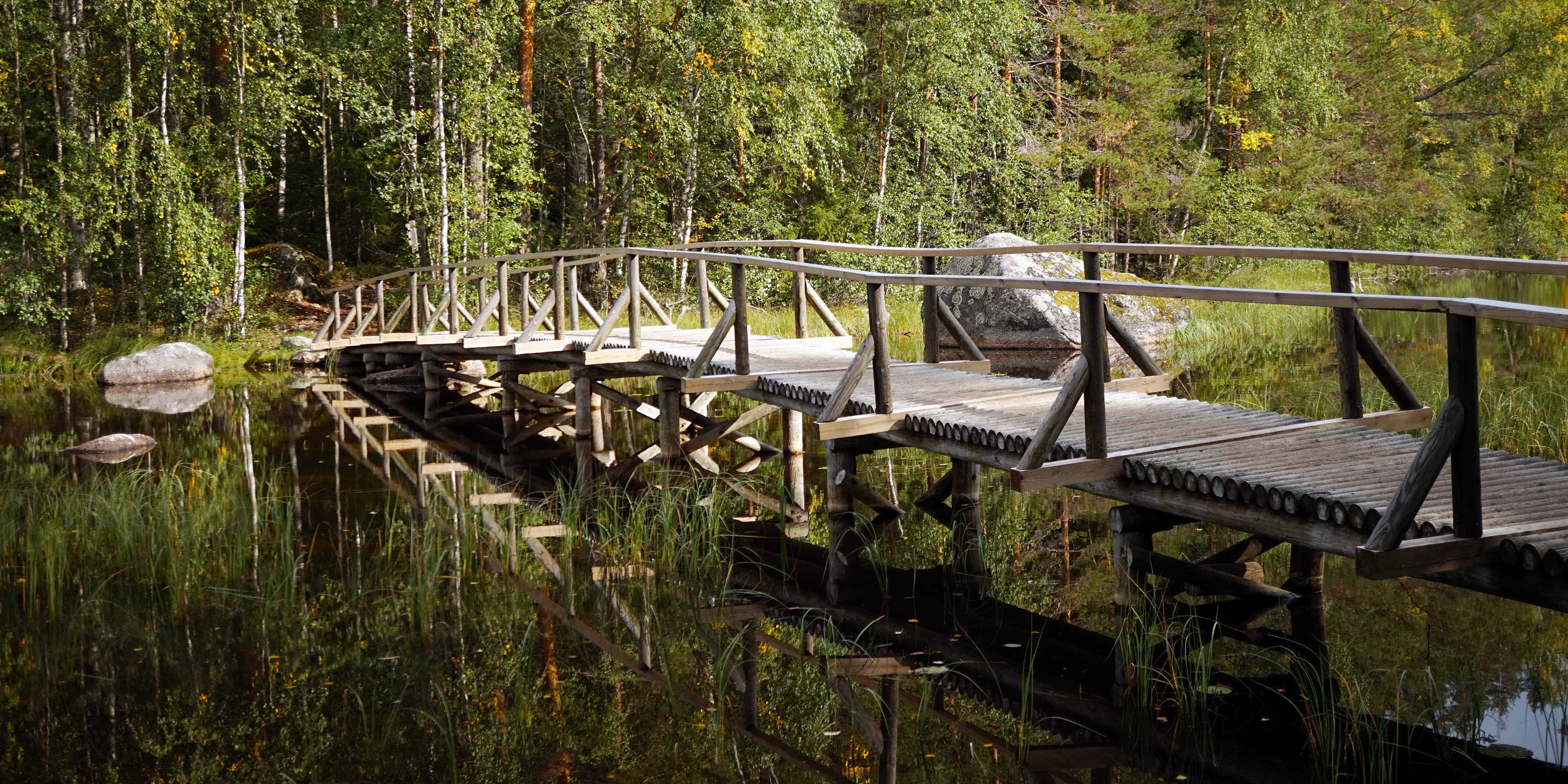 A bridge over the lake Kurkijärvi in Isojärvi National Park, Finland.